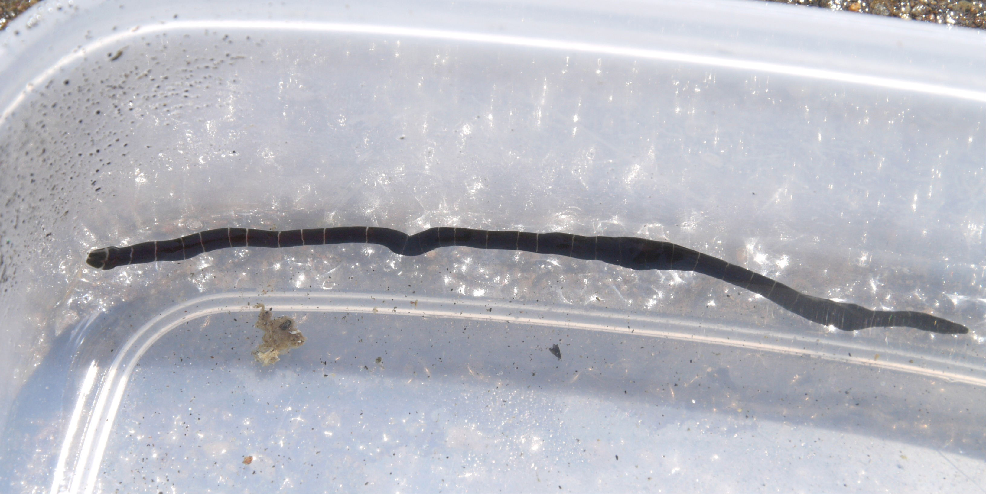 Ribbon worms Lineus geniculatus (Heteronemertea:Lineidae). Tanabe city, Wakayama prefecture, Japan.